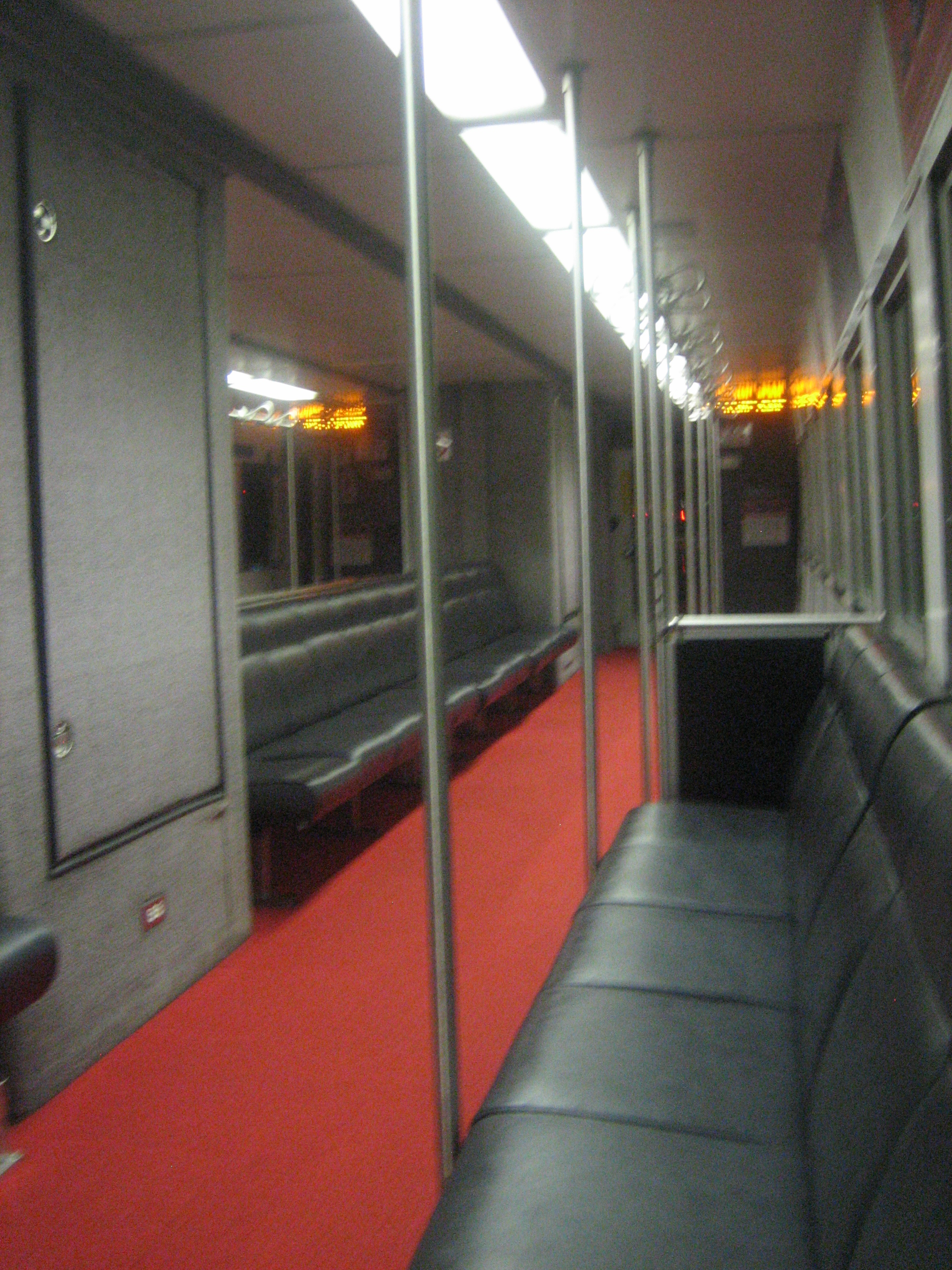 Inside a Dulles International Airport mobile lounge